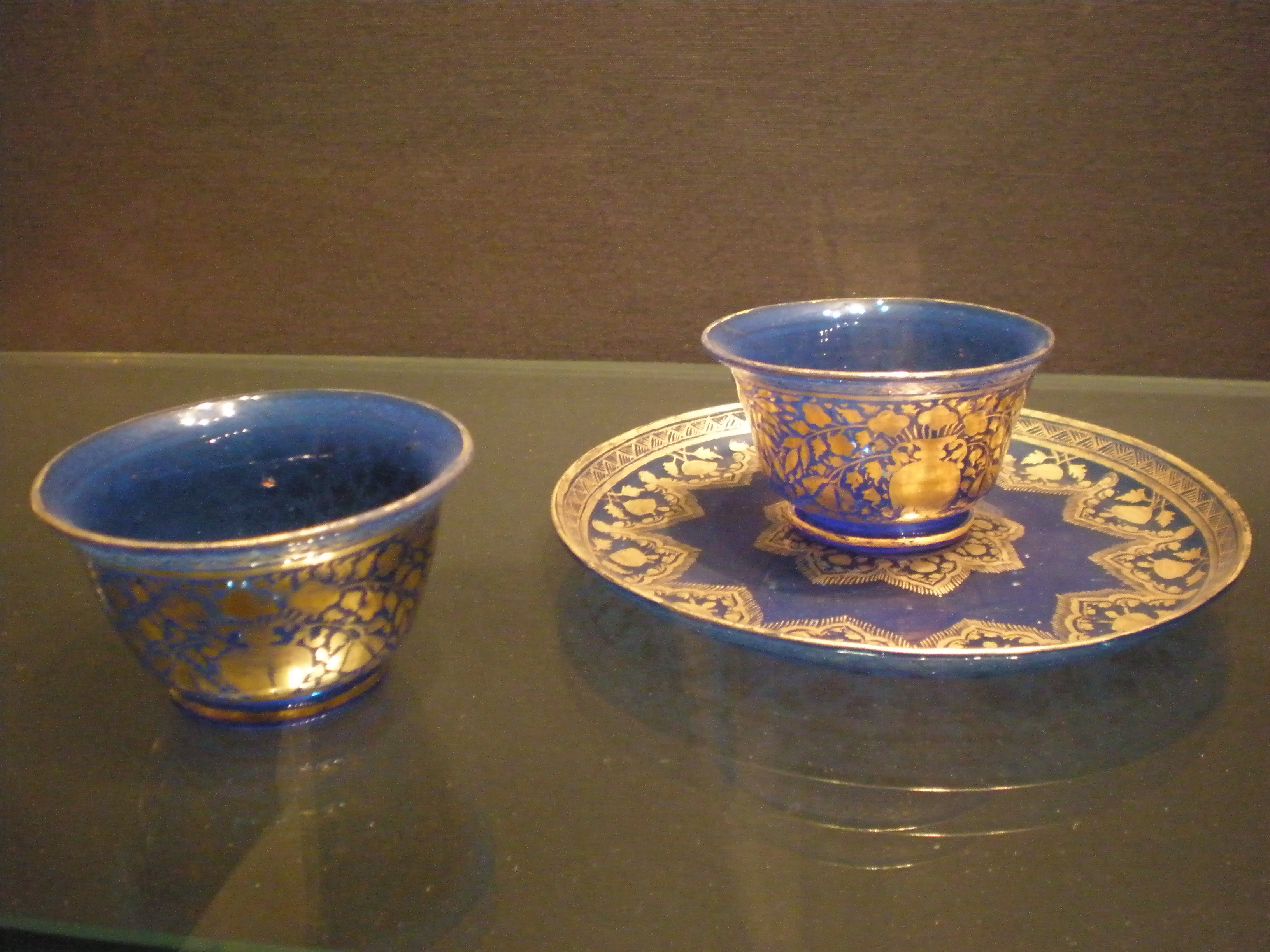 Two cups Cobalt blue glass with gilt floral decoration Mughal Early 18th century C.140-1936 and C.141-1936 From the Wilfred Buckley collection, given by Mrs Buckley in memory of her husband Saucer Cobalt blue glass with gilt decoration Mughal 18th century C.142-1936 From the Wilfred Buckley collection, given by Mrs. Buckley in memory of her husband Wikipedia Loves Art at the Victoria and Albert Museum This photo of item # [1] at the Victoria and Albert Museum was contributed under the team name "va_va_val" as part of the Wikipedia Loves Art project in February 2009. Victoria and Albert Museum The original photograph on Flickr was taken by Val_McG—please add a comment to the original Flickr page whenever a use has been made on Wikipedia or another project. Project galleries on Flickr: this institution, this team